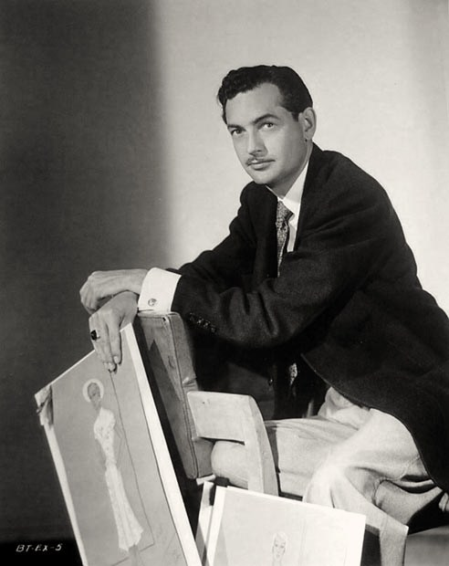 costume designer Bill Thomas - publicity still